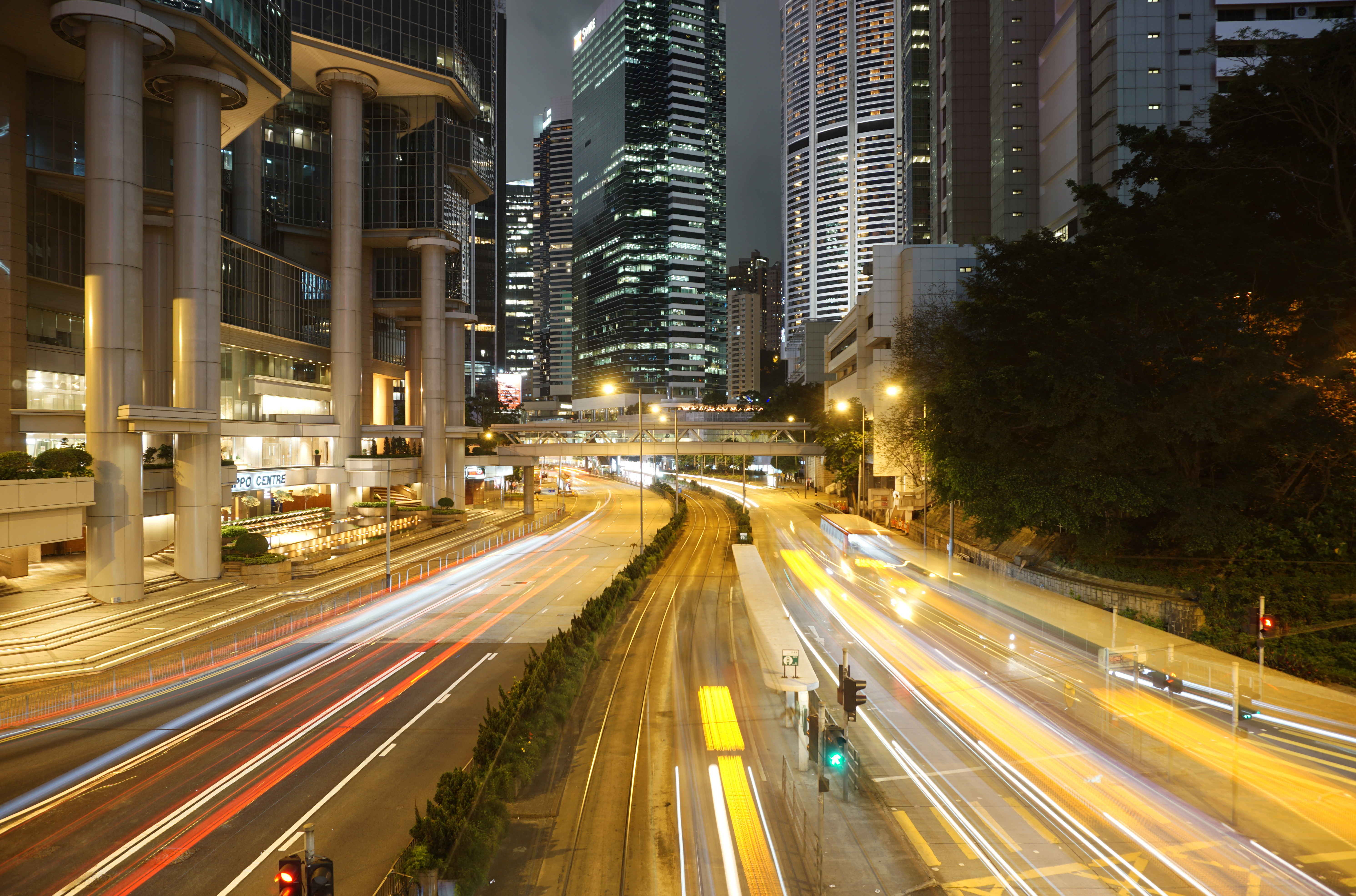 Queensway in Admiralty, Hong Kong.